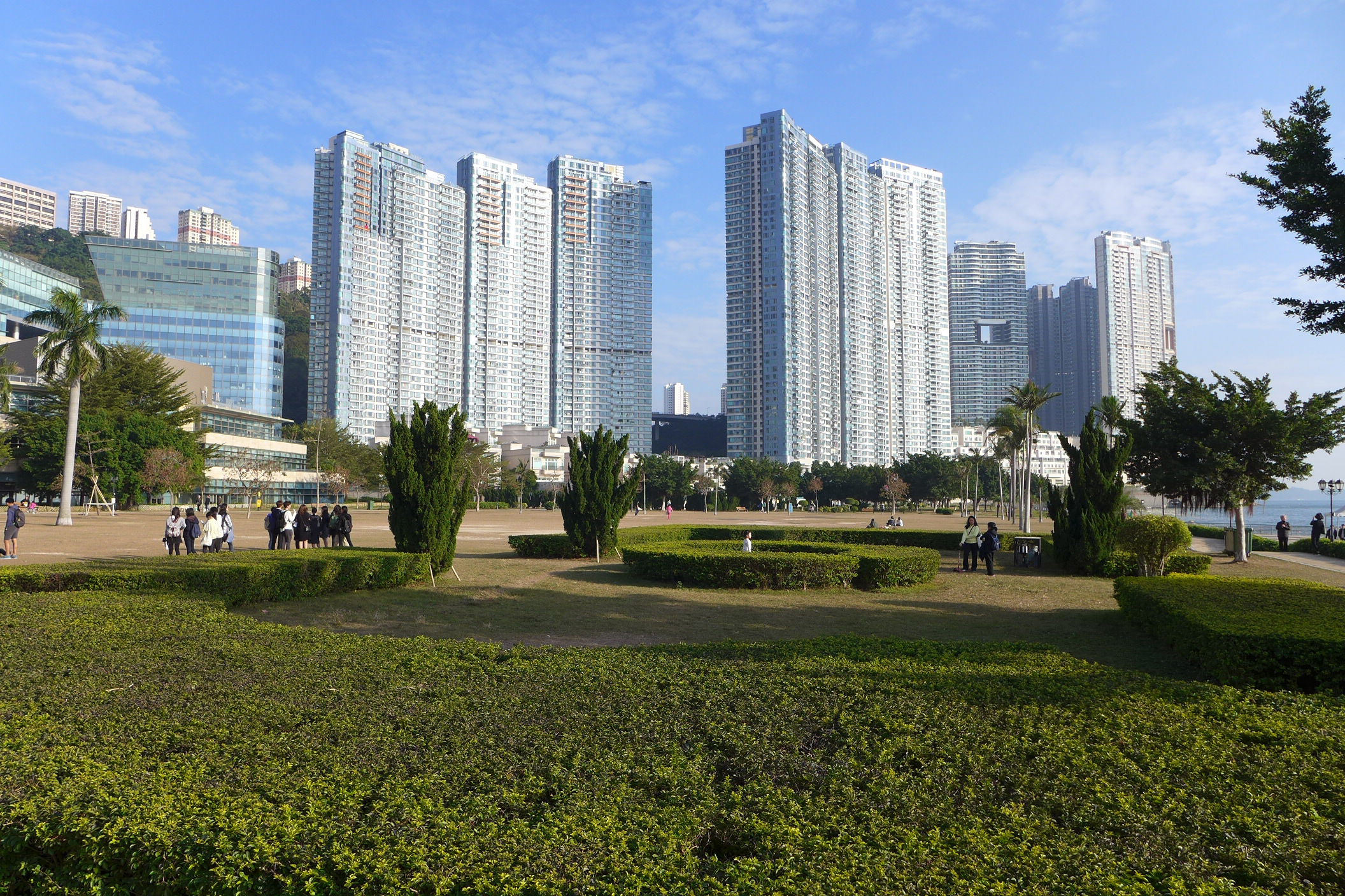 Cyberport Plants decoration